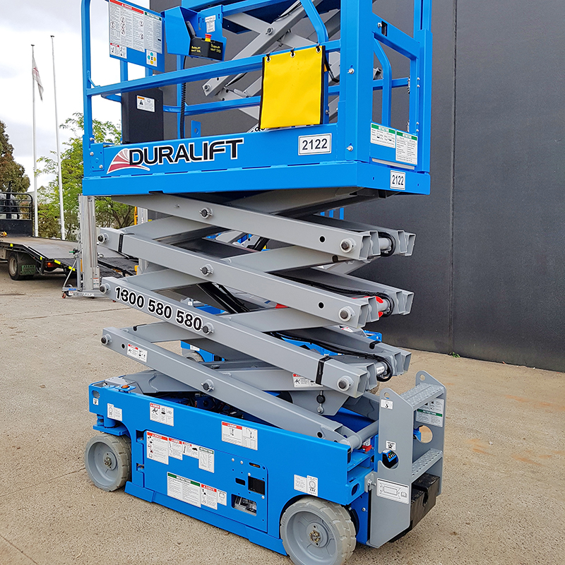 19ft Electric Scissor Lift at Duralift in Melbourne Australia